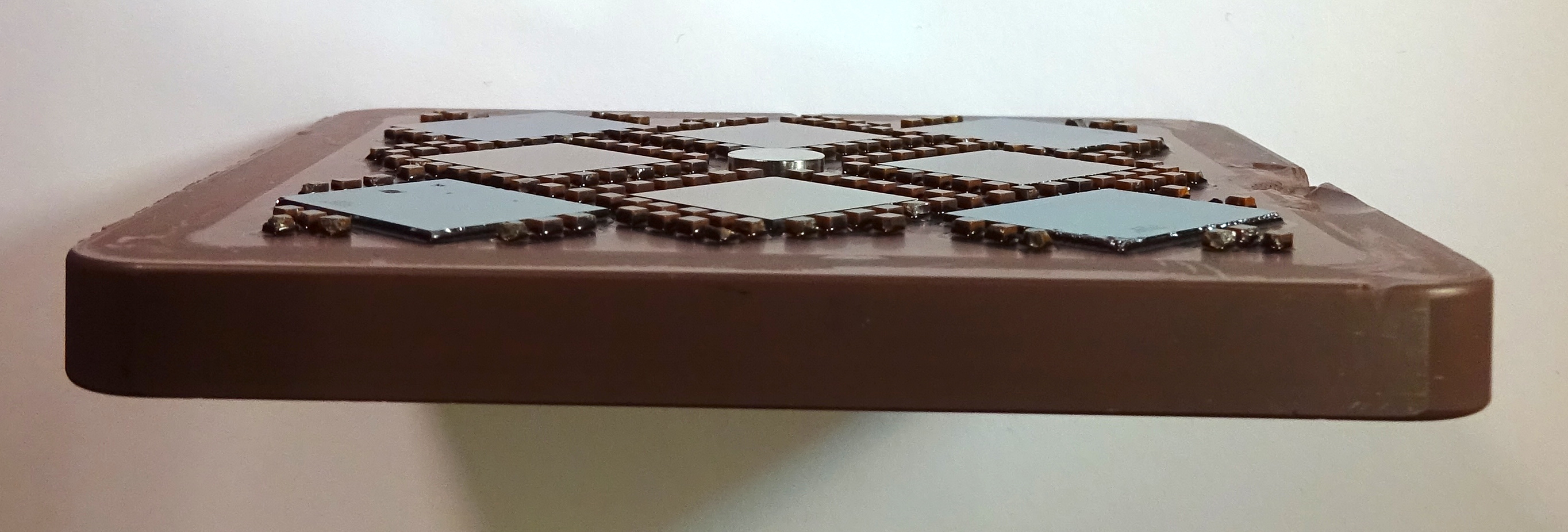 Photo of a IBM Power5 MCM CPU on its side.